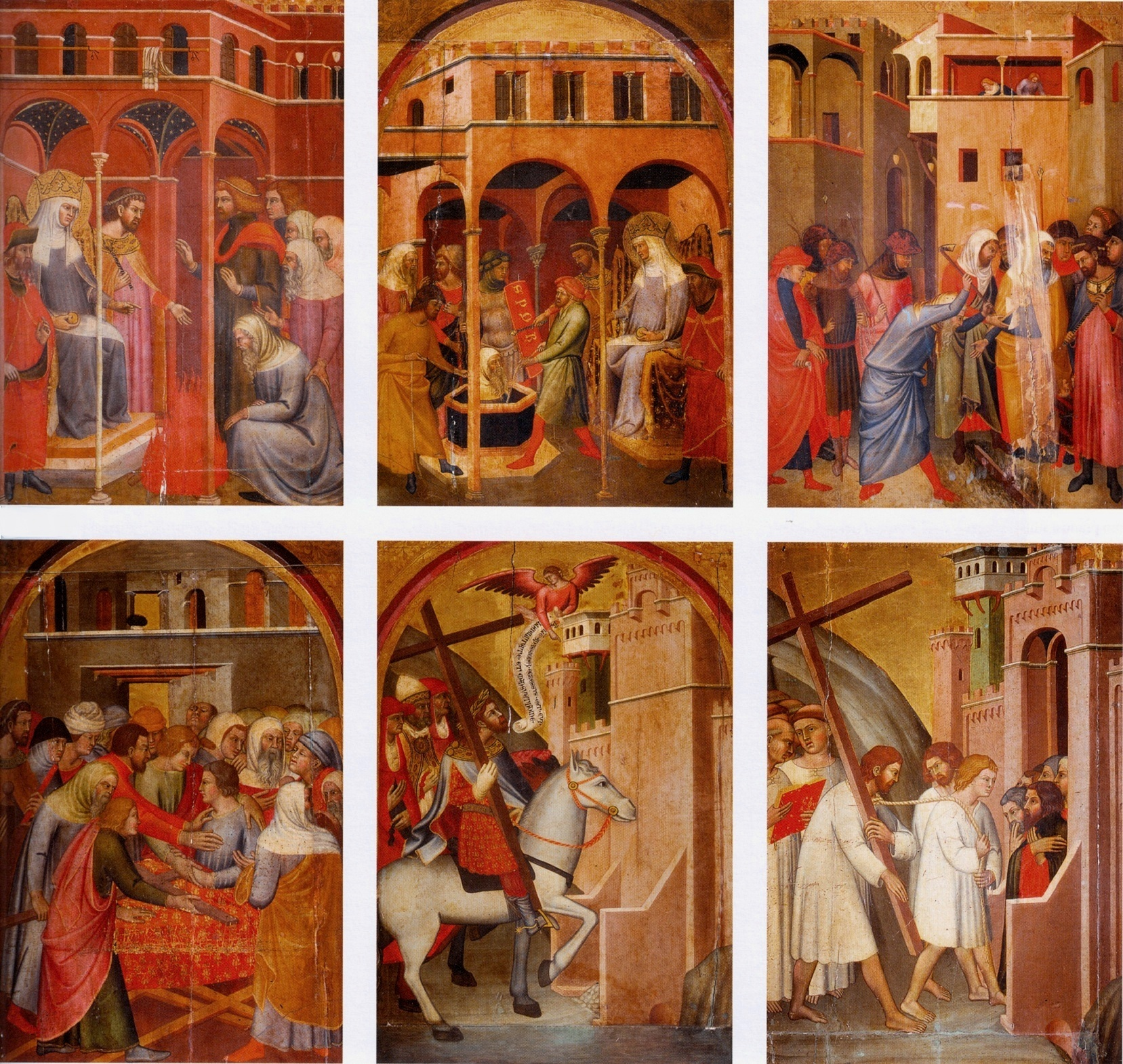 Benedetto di Bindo (con la collaborazione di Giovanni di Bindo, Lando di Stefano e Giusa di Frosino. 'Arliquera' con Angeli e storie della Vera Croce, 1412, Museo dell'Opera del Duomo, Siena